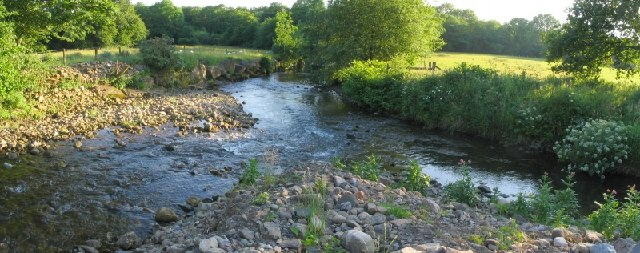 Confluence of Rivers Loughor and Marlas. On the left, the Loughor approaches from the east, on the right, the Marlas approaches from the north. The river continues southwest into the distance as the Loughor.